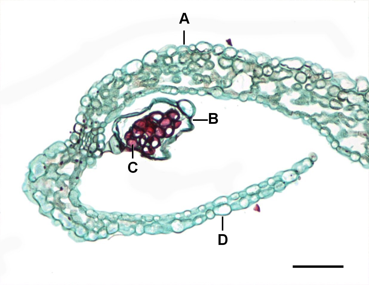 Cross section of a Cystopteris sorus with false indusium. A=Epidermis, B=Sporangium, C=Spore, D=False indusium. Scale=0.35mm.